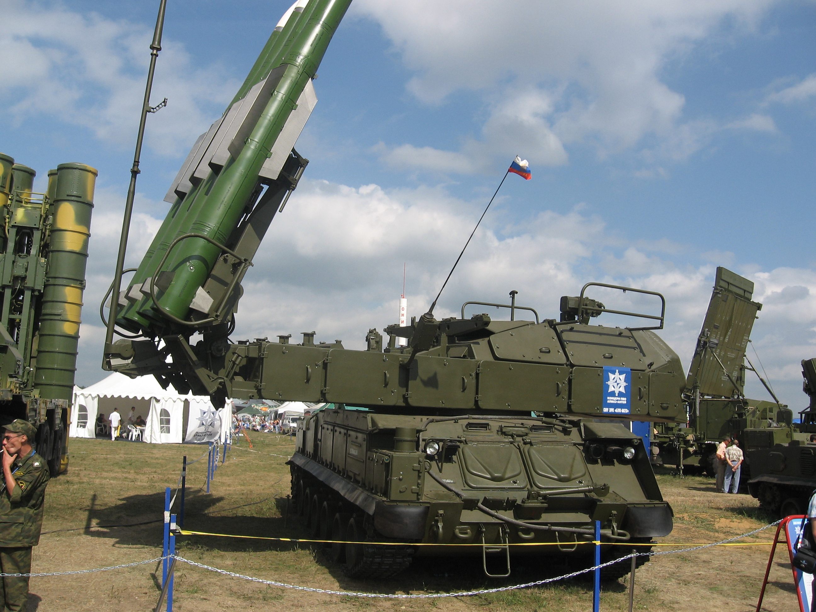 Surface-to-air missile system «Buk-M2» at MAKS-2007.